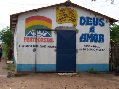 Deus é amor Shurch - Palma - Santa Maria - RS - Brasil